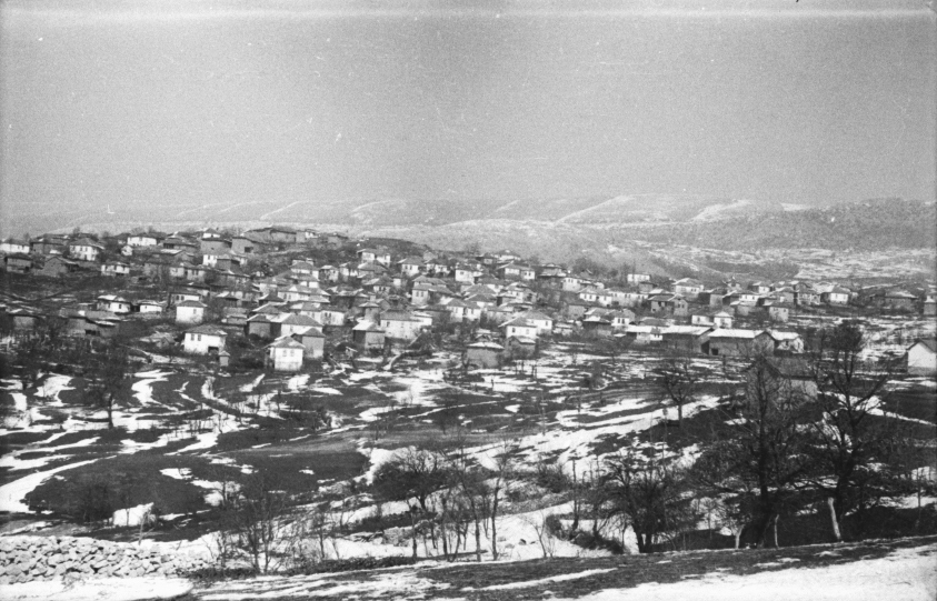 The village Zavoj before sinking